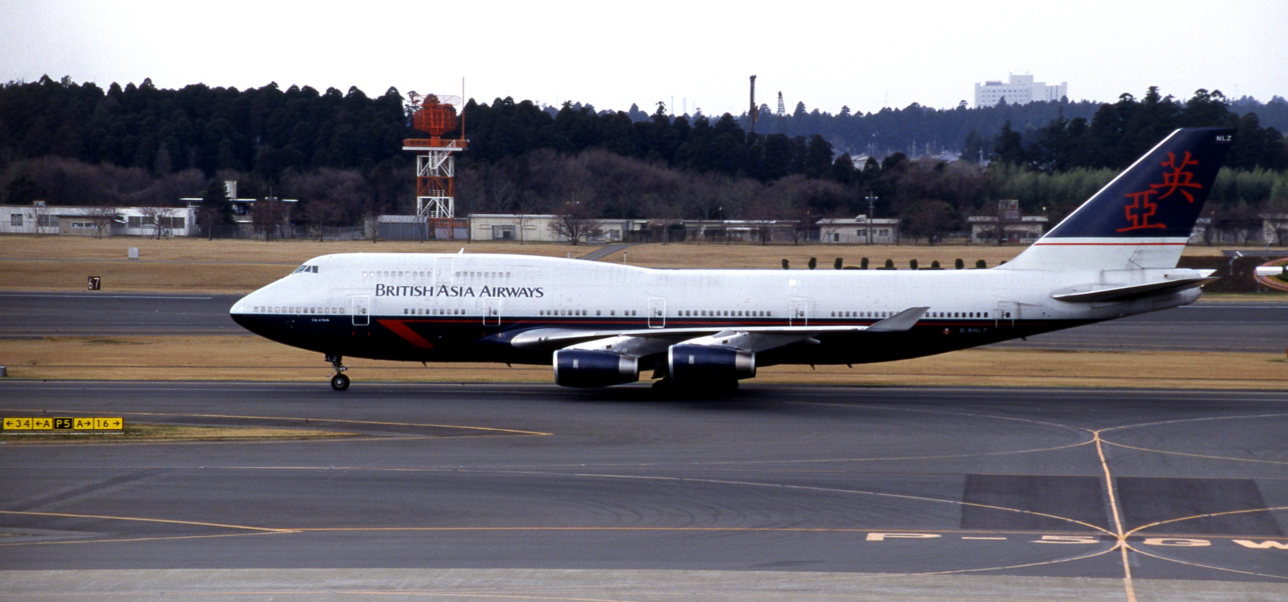 Boeing 747 in the ownership of British Asia Airways, a subsiduary company of British Airways